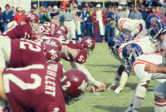 Ole Miss and Mississippi State lined up in the 1975 Egg Bowl. Season was determined using Total Football Stats which lists 1975 as the only season in which the players with visible names (Threadgill, Wohlert, and Molden) all appeared.